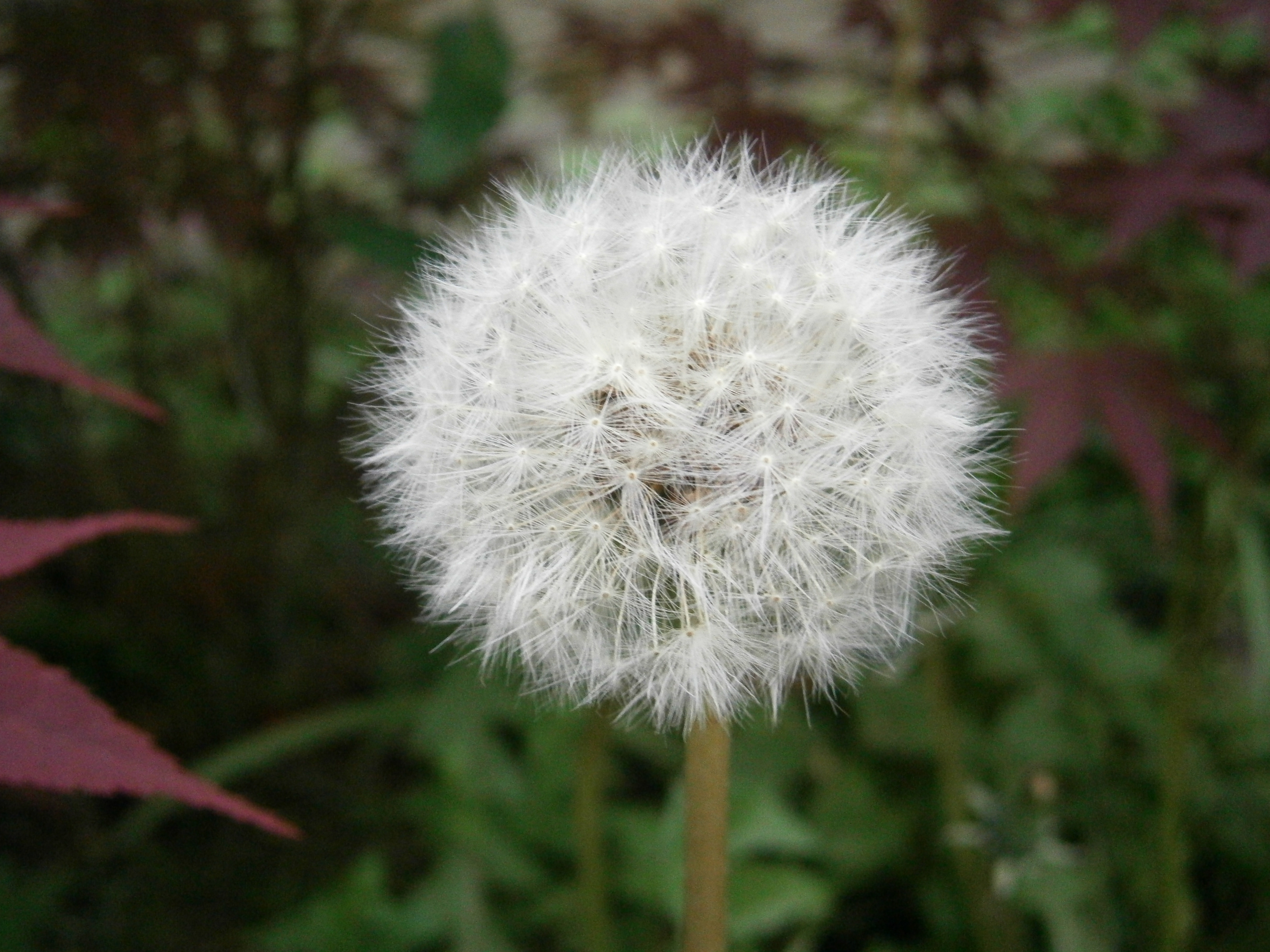 A dandelion.